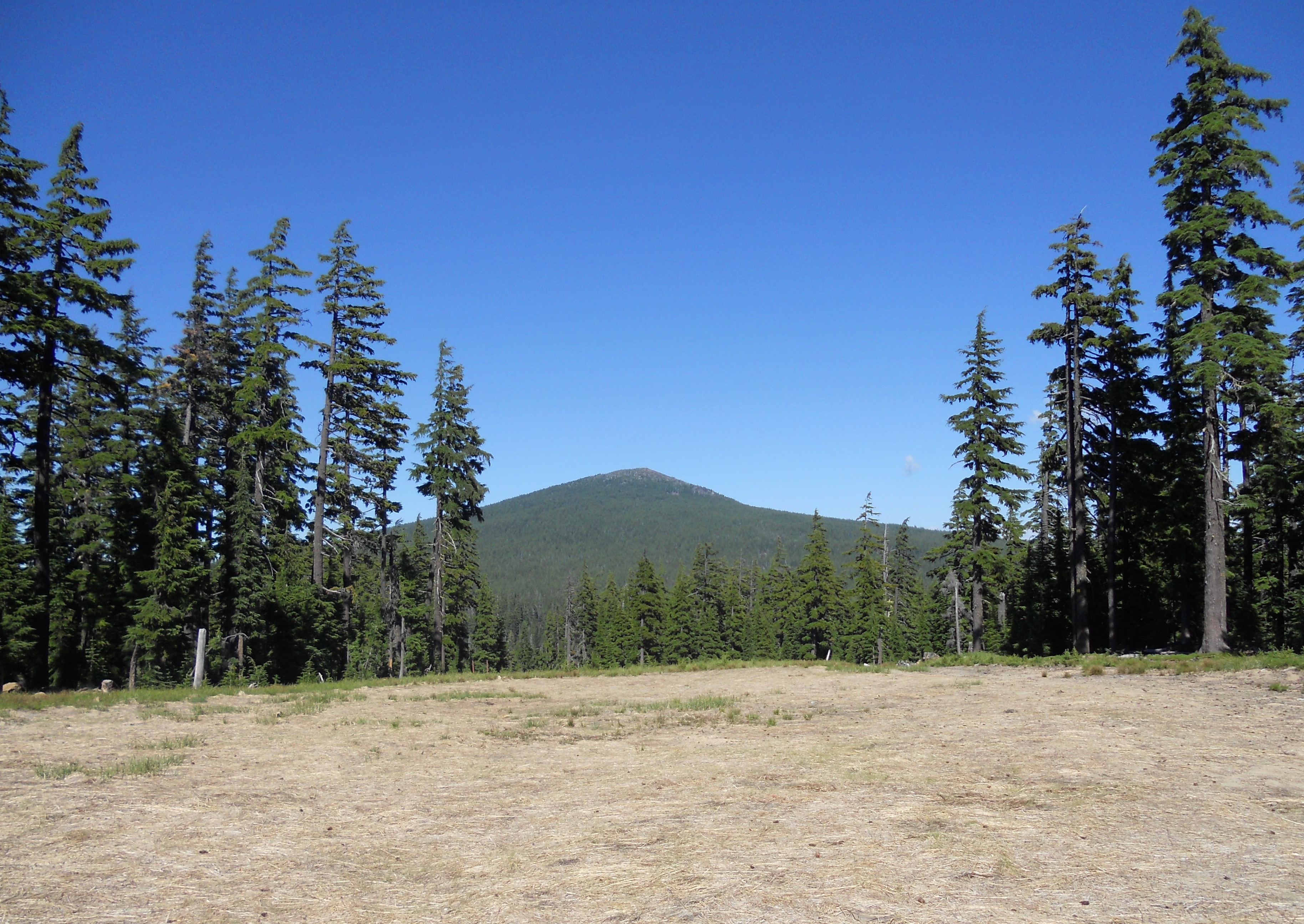 Maiden Peak in the Oregon Cascades as seen from the lower north slope of Eagle Peak